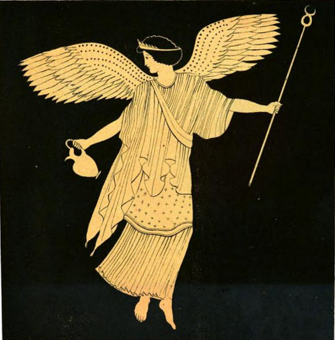 Iris